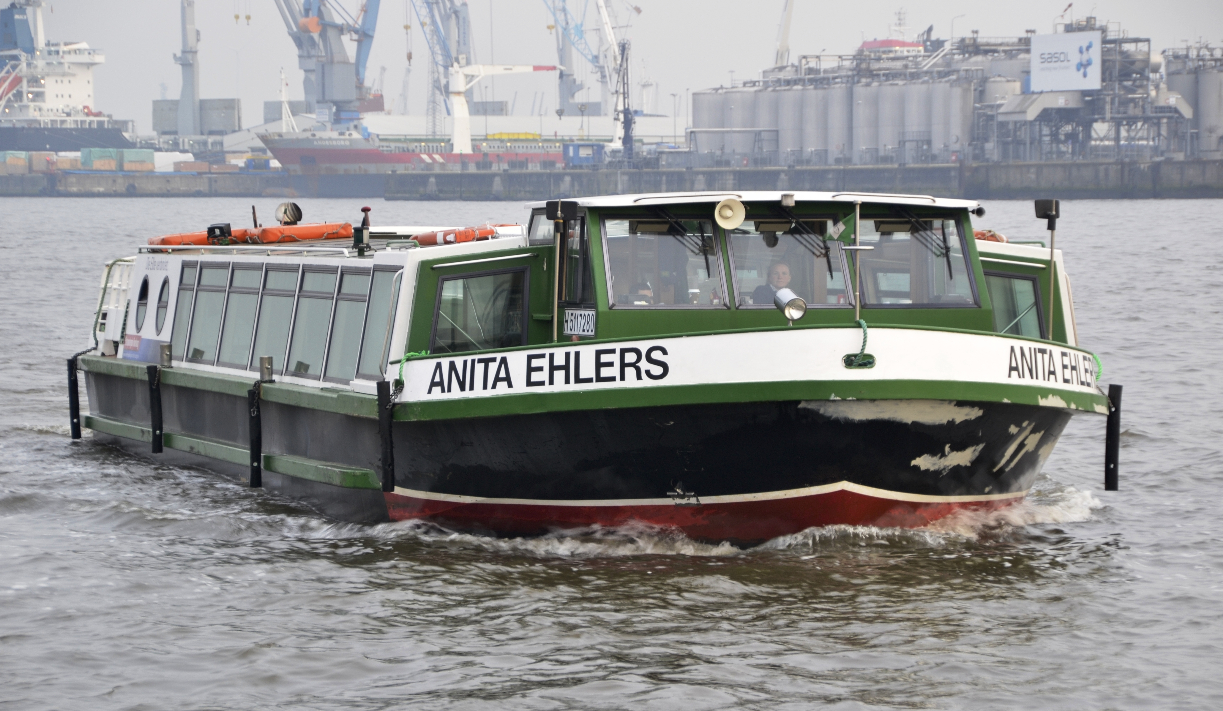 The passenger ship Anita Ehlers in the Port of Hamburg in 2014.